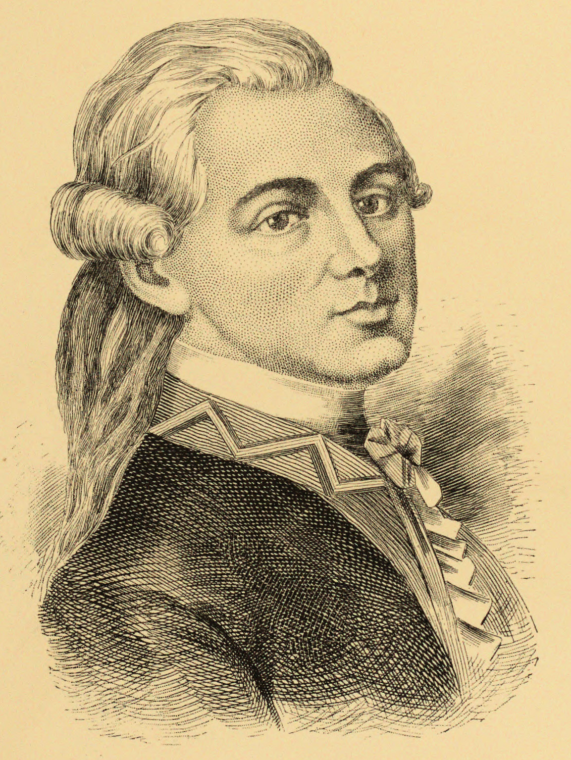 Captain Daniel Lienhart de Beaujeu, circa 1750. Beaujeu was an officer garrisoned in New France. He was killed at the beginning of the battle of the Monongahela on 9 July 1755.